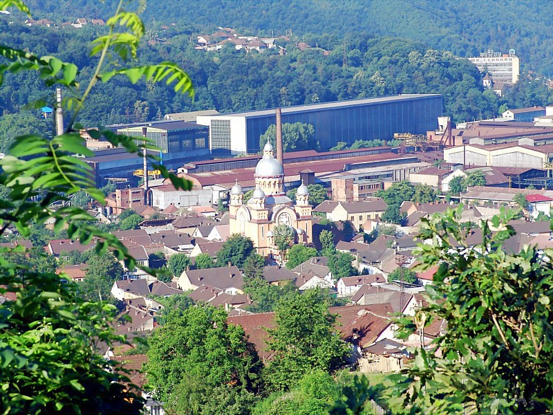 Panoramic view of Resita